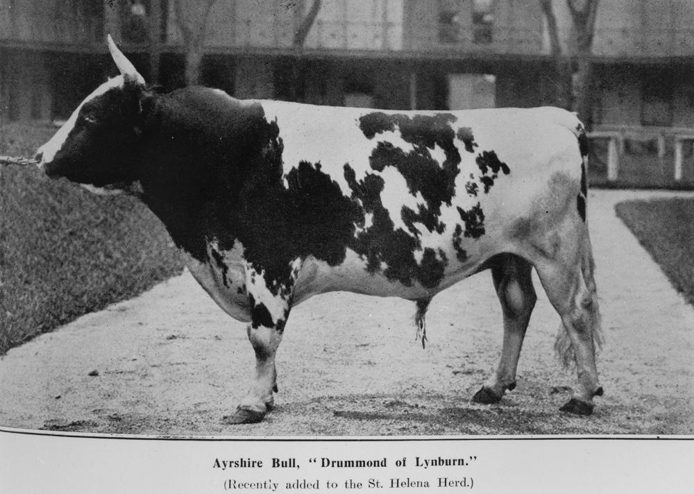 Ayrshire Bull, "Drummond of Lynburn", St. Helena, 1912 Recently added to the St Helena herd. (Caption supplied with photograph). Report on Controller General of Prisons 1912 (Description supplied with photograph).